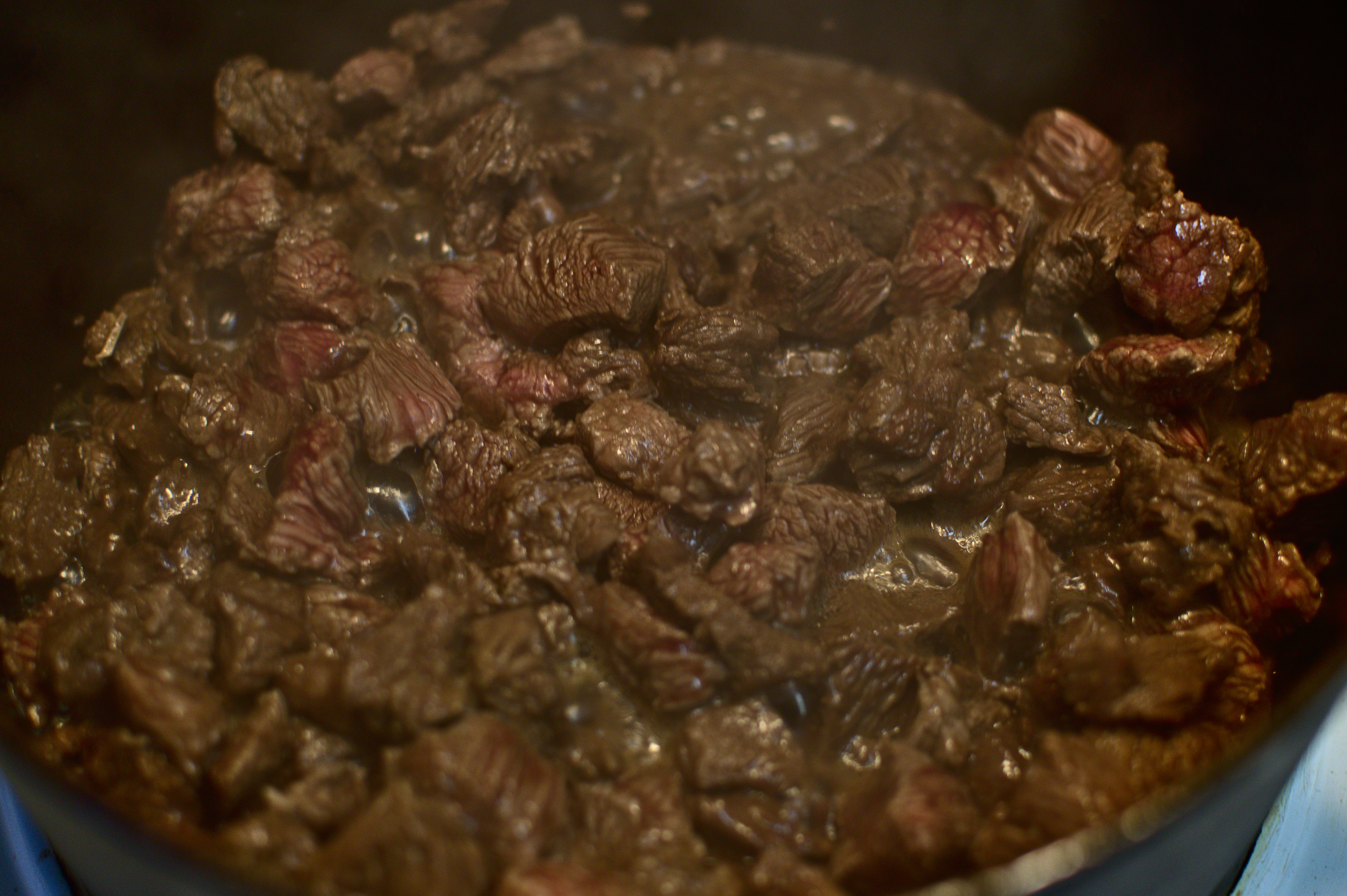 Chuck steak